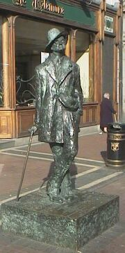 James Joyce statue on North Earl Street near its junction with O'Connell Street in Dublin, Ireland.